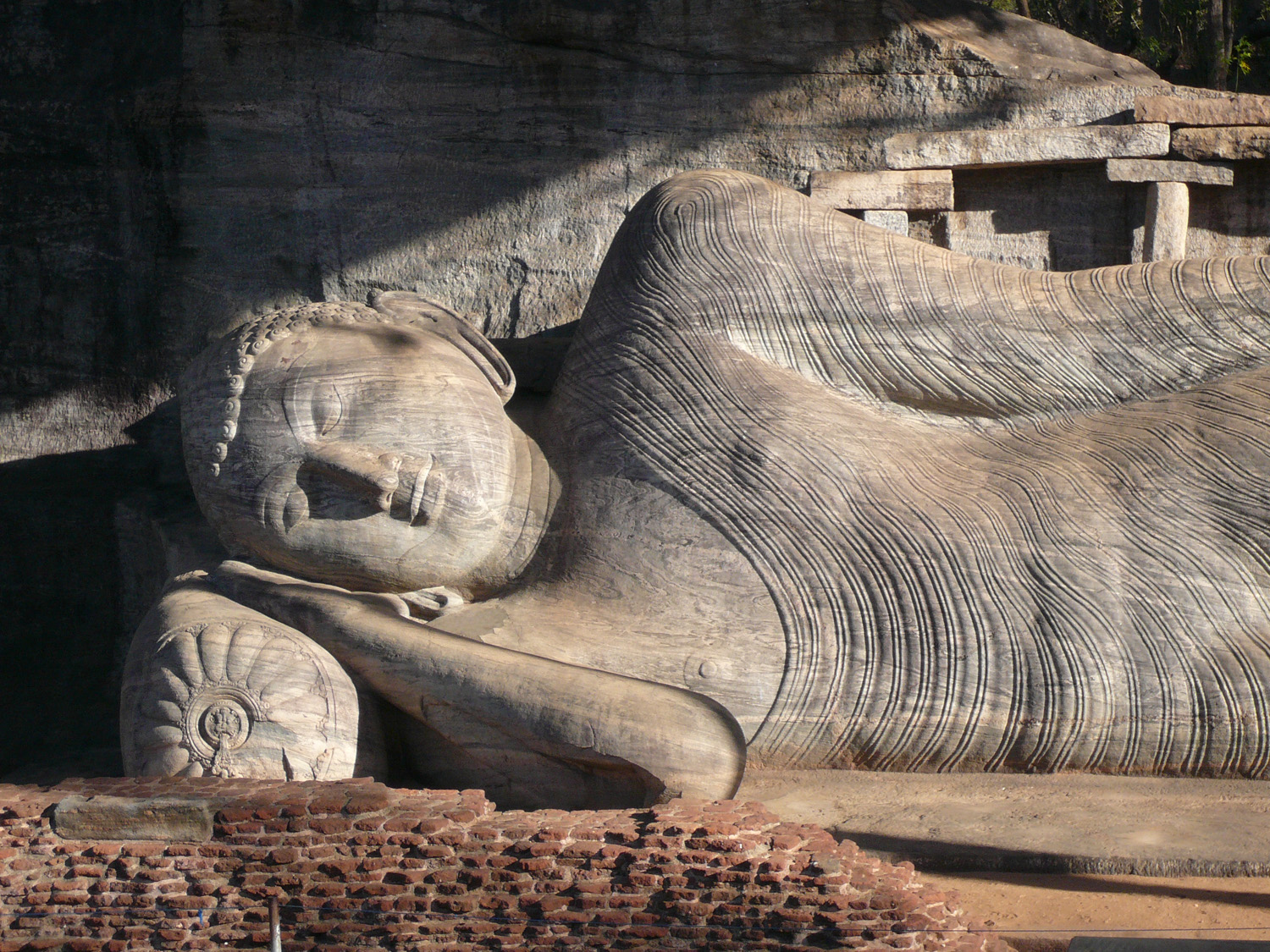 Reclining Buddha in Gal Vihara, Polonnaruwa. The picture is taken at a time when the shadow of the roof has not yet touched the image. Zoom in from quite a distance.